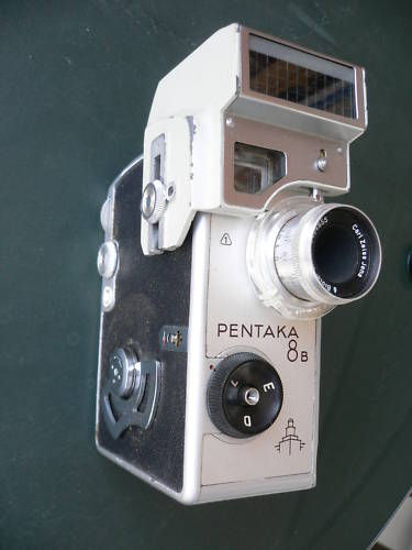 The Pentaka 8B is a 8mm movie camera by German optics manufacturer VEB Pentacon Dresden. This one is equipped with a Carl Zeiss Biotar objective.